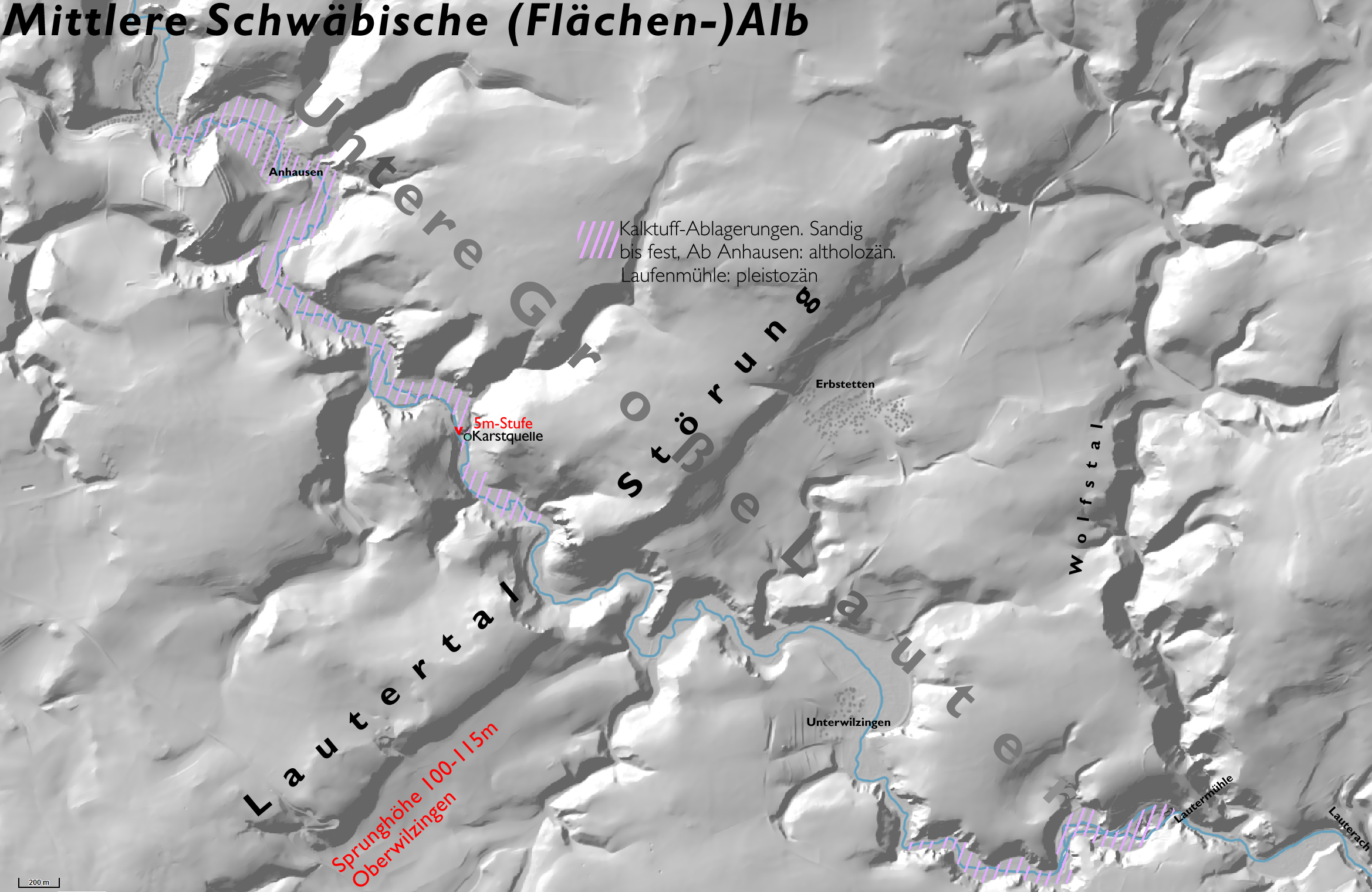 digital elevation model of the terrain of the southern part of the Middle Swabian Alb. The map shows the lower Grosse Lauter) in its environment. Most prominent is the normal fault, called “Lauter-Störung”, where the hanging wall is to the south. The part of the fault southwest to the river valley has a throw of approx. 100-115 m. There are also two layers of Tufa sediment within the river’s bed, 3.4 resp. 1.7 km in length and up to 6 m in size. The layers are marked in colour. While the upper layer’s age is last interglacial Pleistocene, the age of the lower is Atlantic period (Holocene). See also: Image:Kalktuff-Wasserfall_Grosse-Lauter_Schwaebische-Alb.jpg.